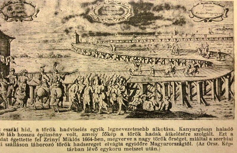 Bridge near Osijek, Osijek Drava, 17th century